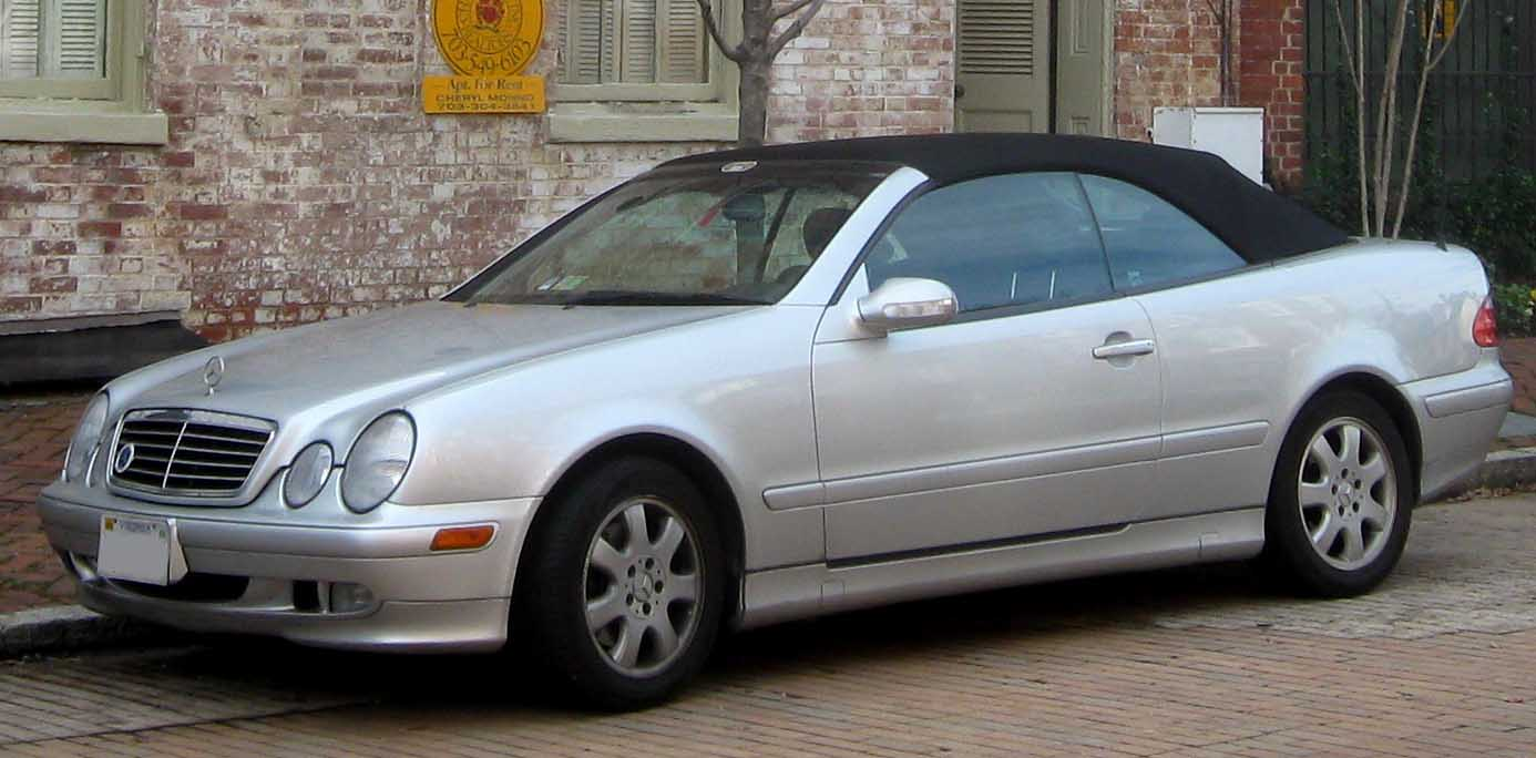 Mercedes-Benz CLK photographed in Alexandria, Virginia, USA.